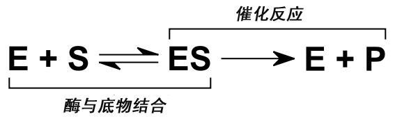 Chinese version of simple scheme of enzymatic reaction